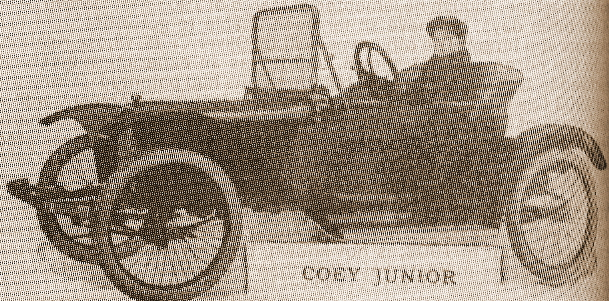 1914 Coey Junior